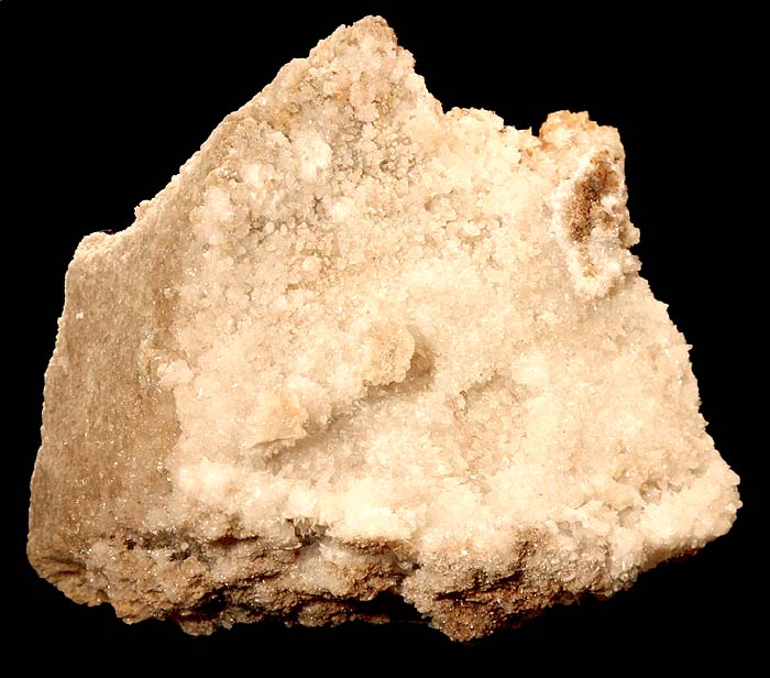 Talmessite Locality: Gold Hill Mine (Western Utah Mine), Gold Hill, Gold Hill District (Clifton District), Deep Creek Mts, Tooele County, Utah, USA (Locality at ) A SUPERB specimen for both size and the quality of the crystals, this piece features extremely sharp crystals to 5 mm in size covering the entire display surface! Old material, and richer than any specimen I have seen for sale before from this locality (which is said to produce the sharpest crystals for the species) 11.0 x 9.2 x 5.7 cm